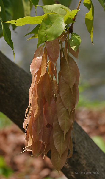 (West Indian Mountain Rose) Brownea coccinea in Kolkata, West Bengal, India.